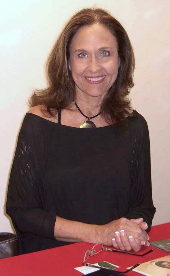 Actress Erin Gray at the Big Apple Convention in Manhattan, October 1, 2010. Photo by Luigi Novi. This photo may be used, modified and published for any purpose, only if a easily visible credit to the photographer is placed near the photo in each instance in which it is used. (See licensing information below.) Publication of this photo without this proper attribution constitutes copyright infringement. For more information on my photos, you can contact me here.